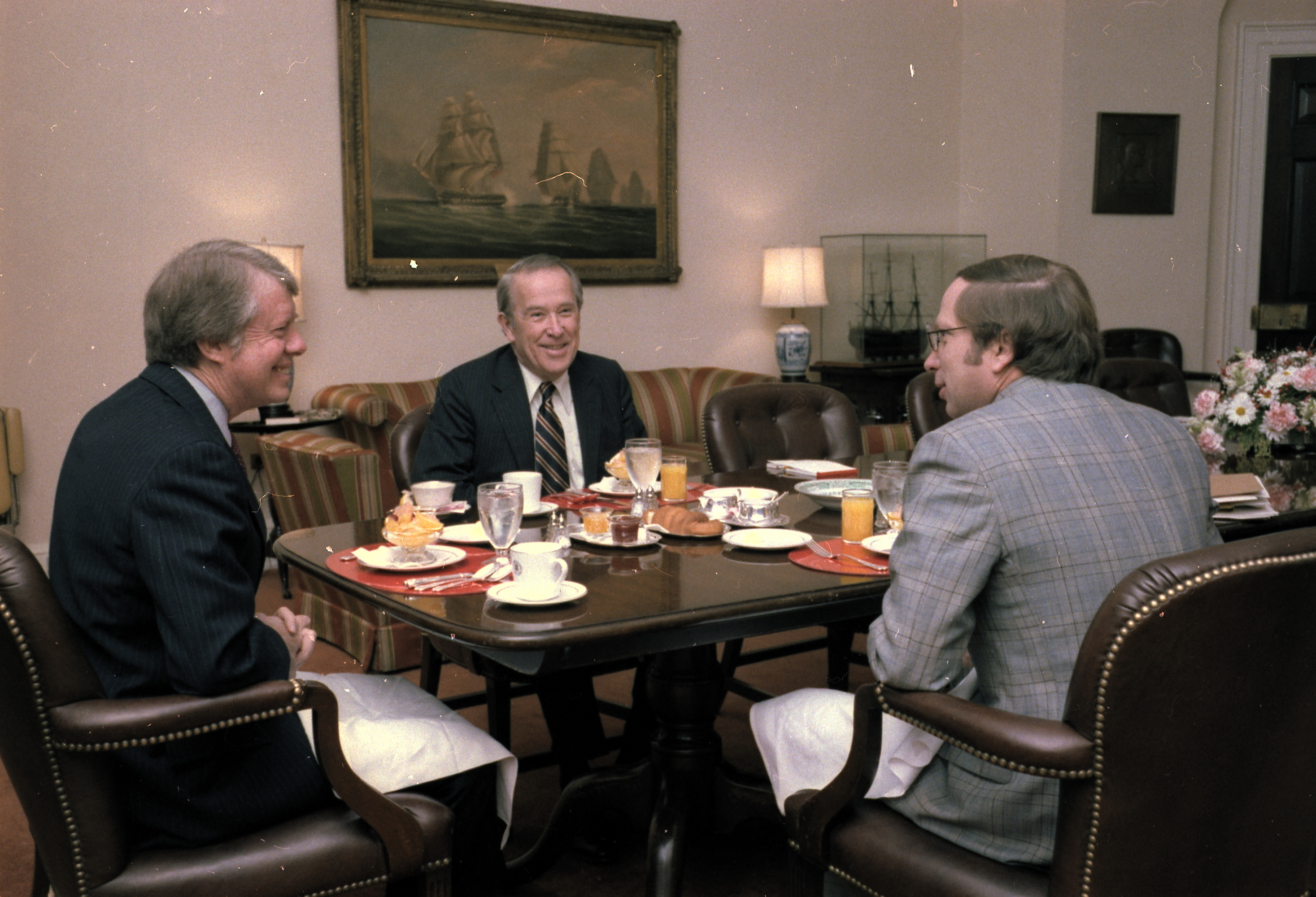 Jimmy Carter with Senator Henry "Scoop" Jackson and Senator Sam Nunn